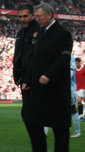 Carlos Queiroz (left) and Alex Ferguson (right)